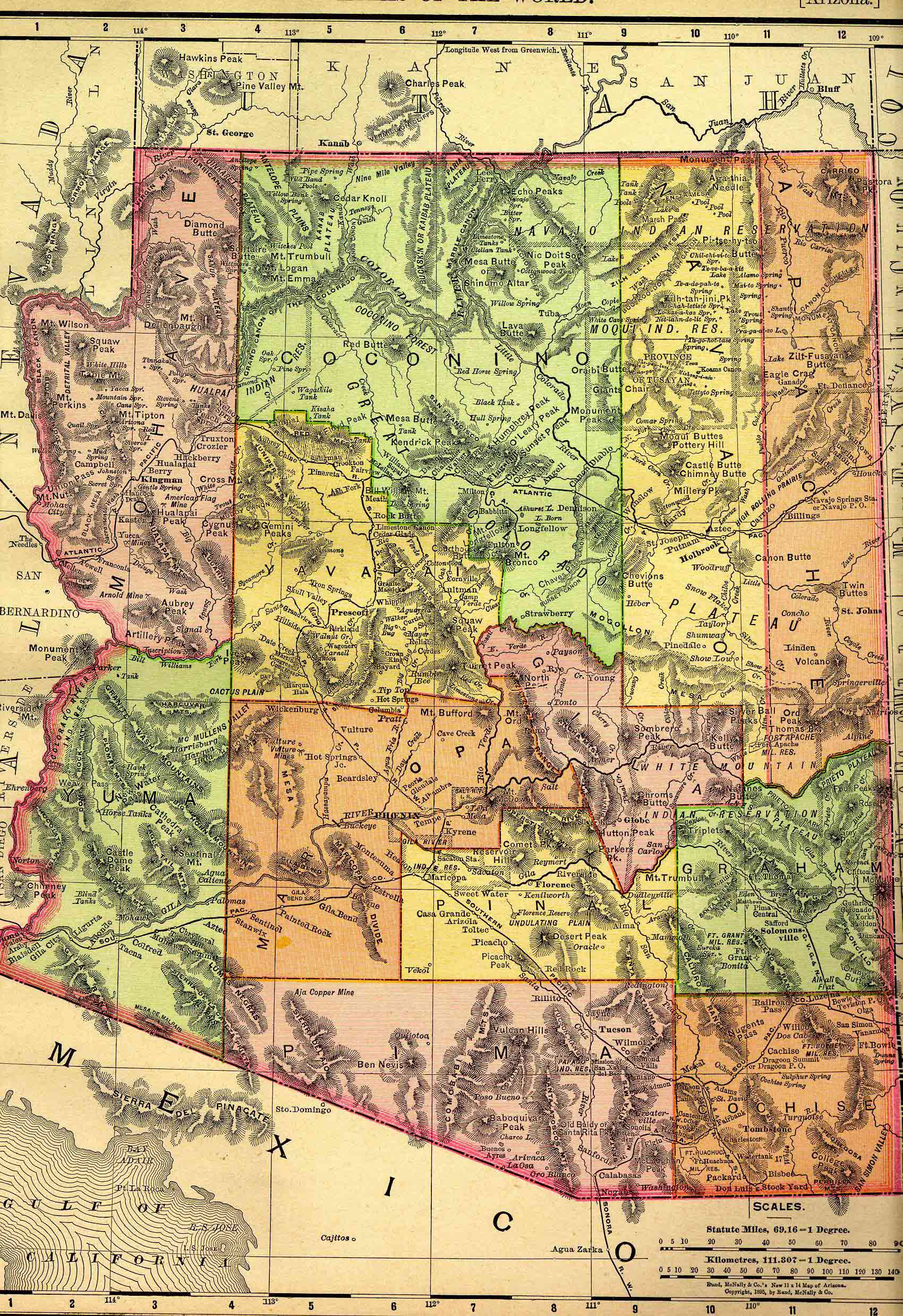 Map of Arizona Territory in 1895.